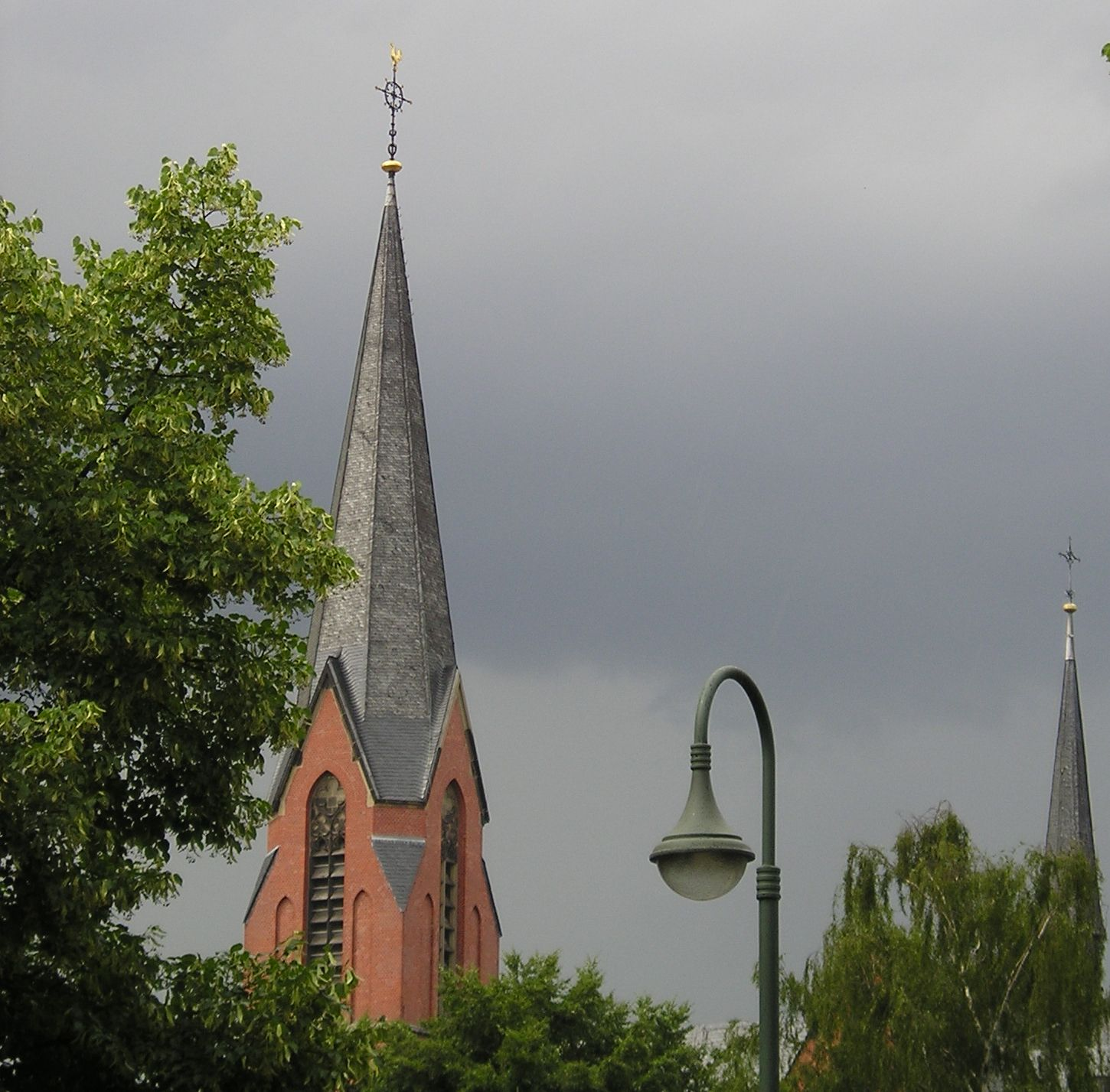 Catholic Saint Caecilia Church in Düsseldorf-Benrath